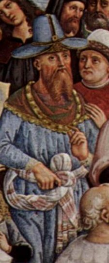 Despot Thomas, detail Pintoriccio fresco of Pius II at Ancona, Italy c. 1471 Piccolomini Library of Siena Cathedral